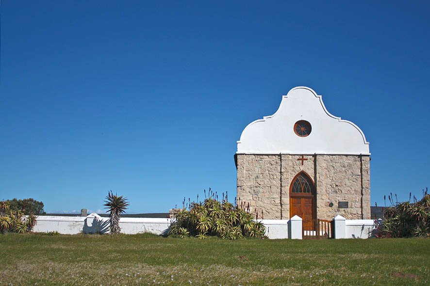 Barry Church, Port Beaufort This media shows a South African Protected Site with SAHRA file reference 9/2/039/0004.